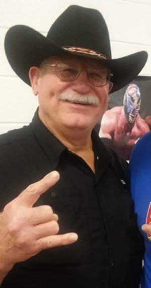 Picture of Del "The Patriot" Wilkes with Stan Hansen in 2015.